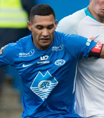 30.08.2018. Норвегия, Мольде, «Мольде». Лига Европы УЕФА 2018/19, раунд плей-офф, «Мольде» — «Зенит».